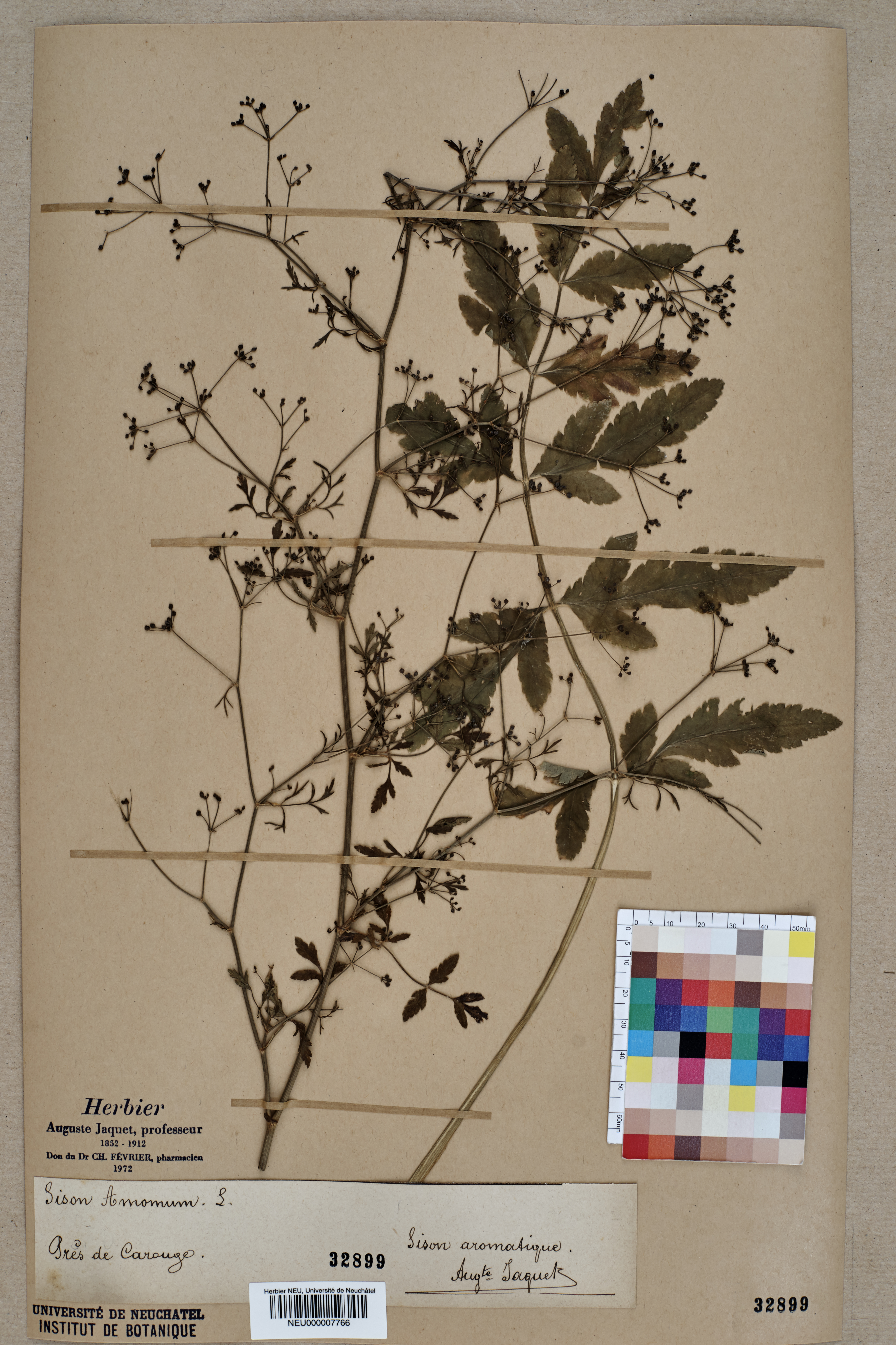 Dried pressed specimen of Sison amomum